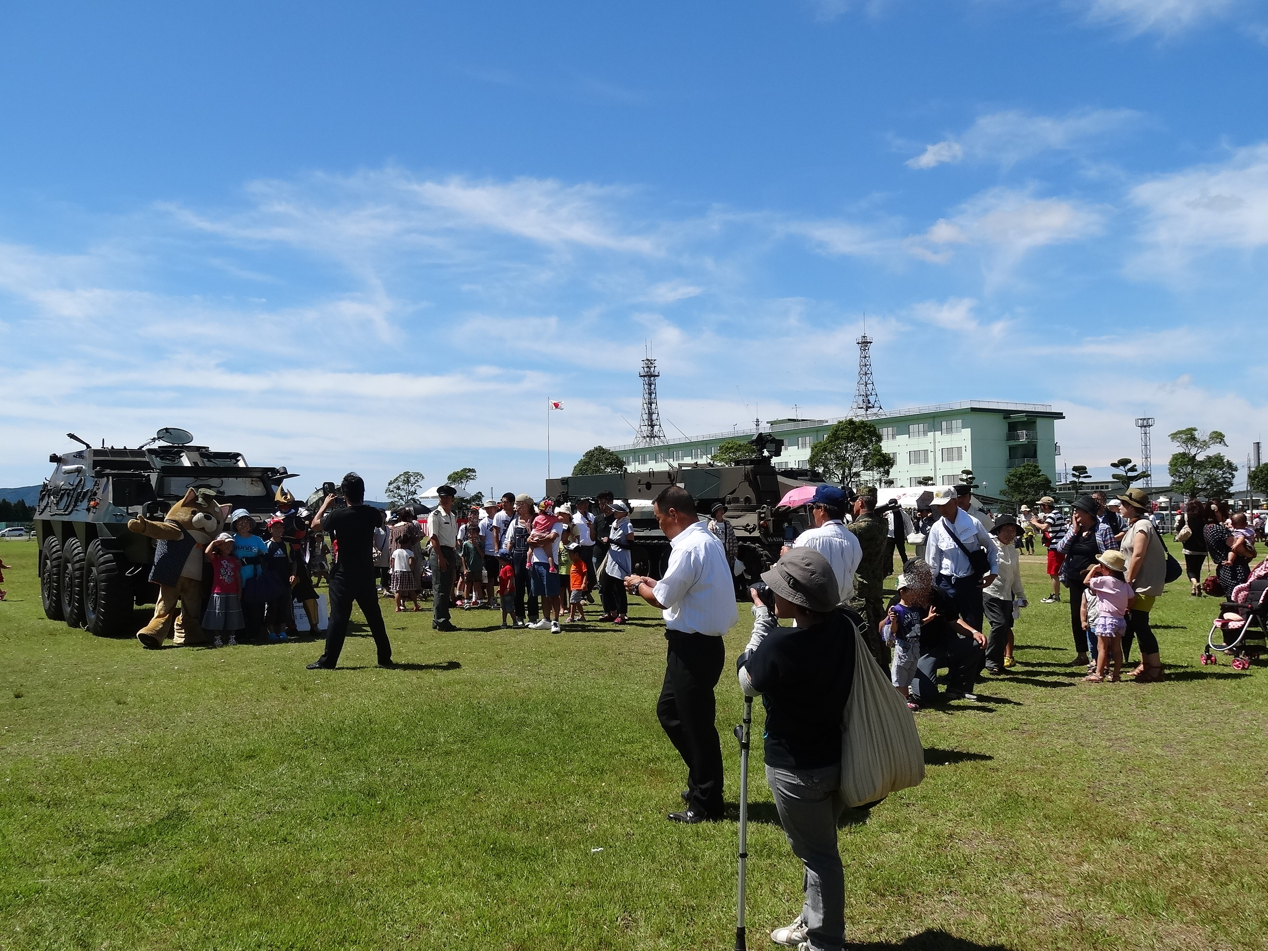 JGSDF Sendai Camp (Satsumasendai City, Kagoshima Prefecture, Japan)